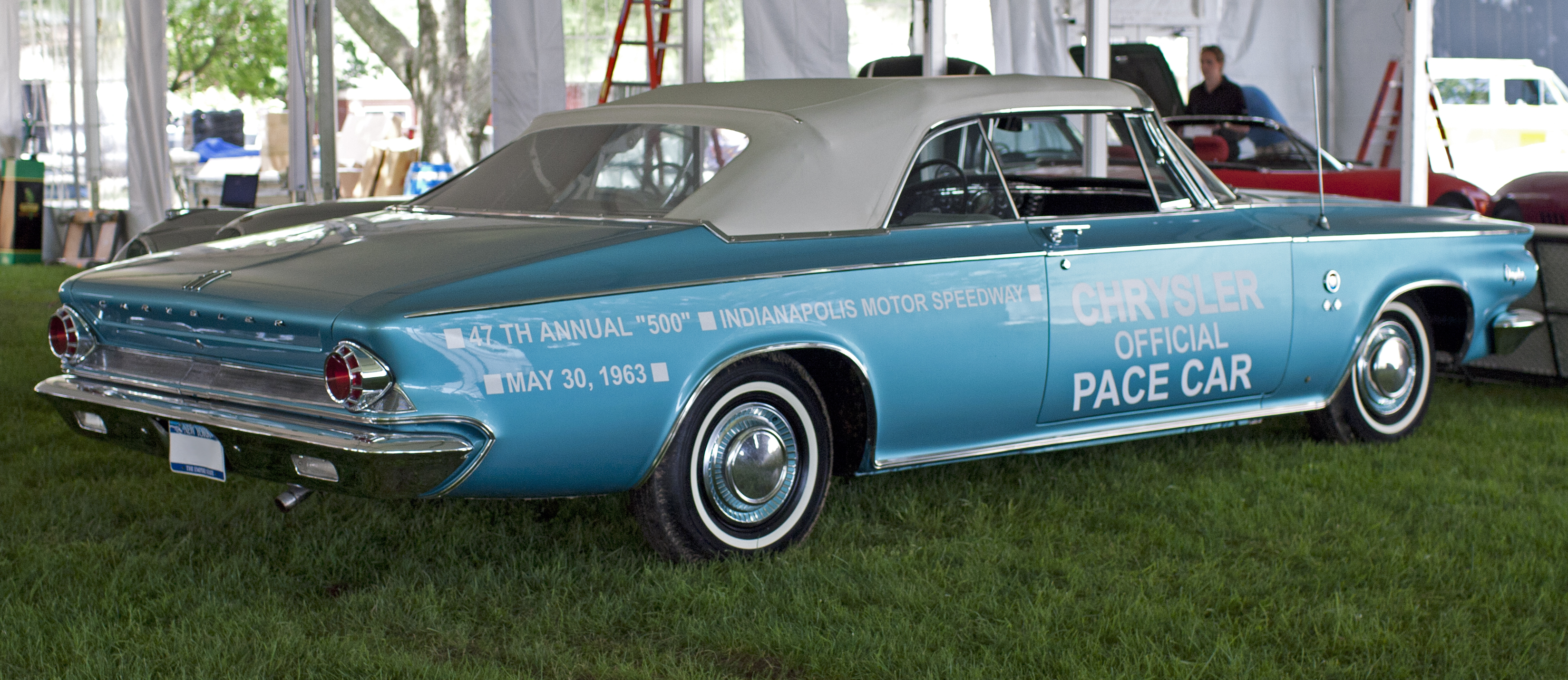 1963 Chrysler 300 "non-letter" Pace Setter Convertible (chassis number 8033192643). The Pace Setter version is not all that rare, 1,861 of these convertibles were built, most in the same color scheme. Up for sale at the June 3, 2012 Bonham's Auction at the Greenwich Concours d'Elegance.